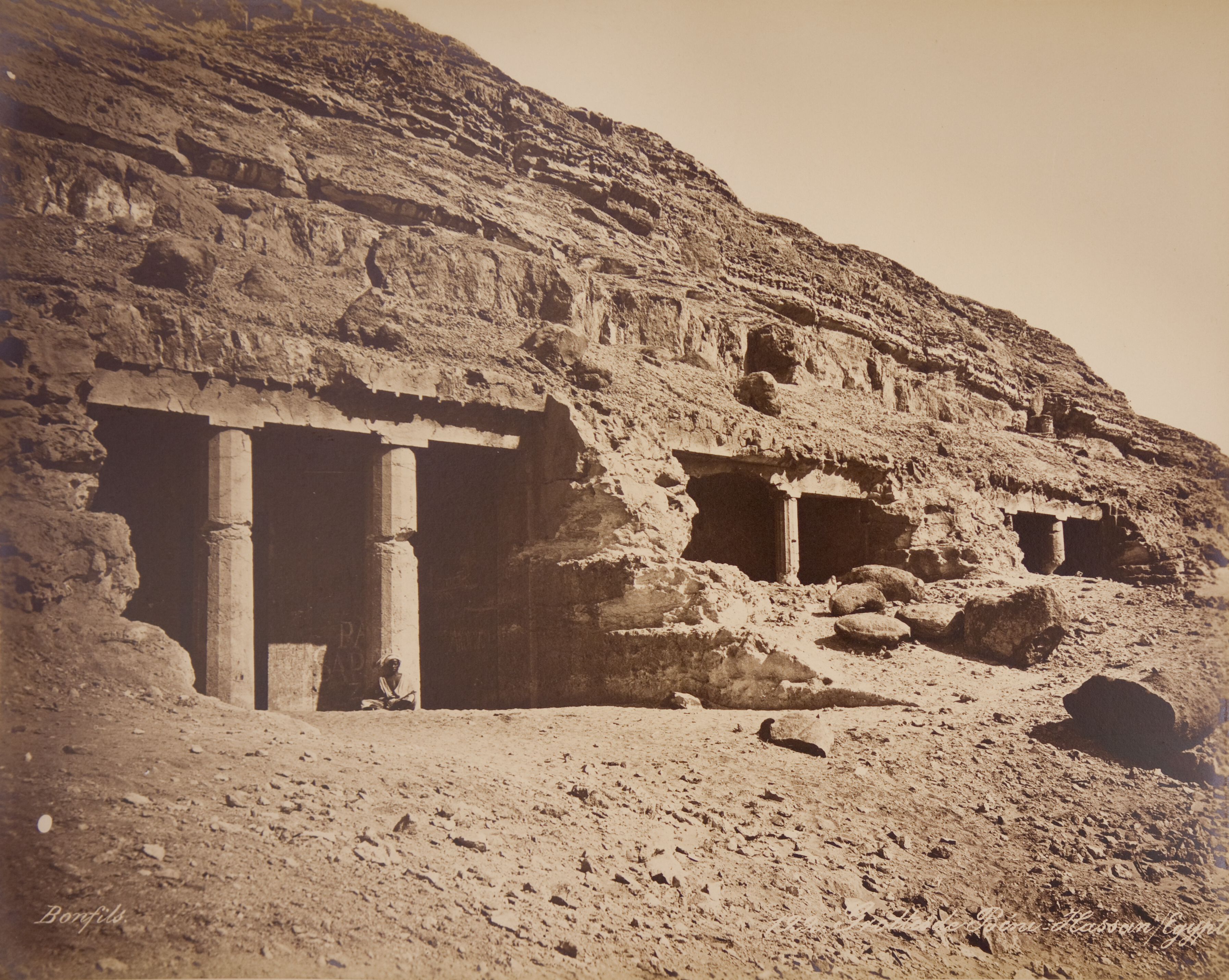 Title: Grottes de Beni-Hassan Artist: Felix Bonfils Artist Bio: French, 1831 - 1885 Creation Date: 1867 - 1885 Process: albumen print Credit Line: Gift of the Catherine and Ralph Benkaim Collection Accession Number: 1998.003.006